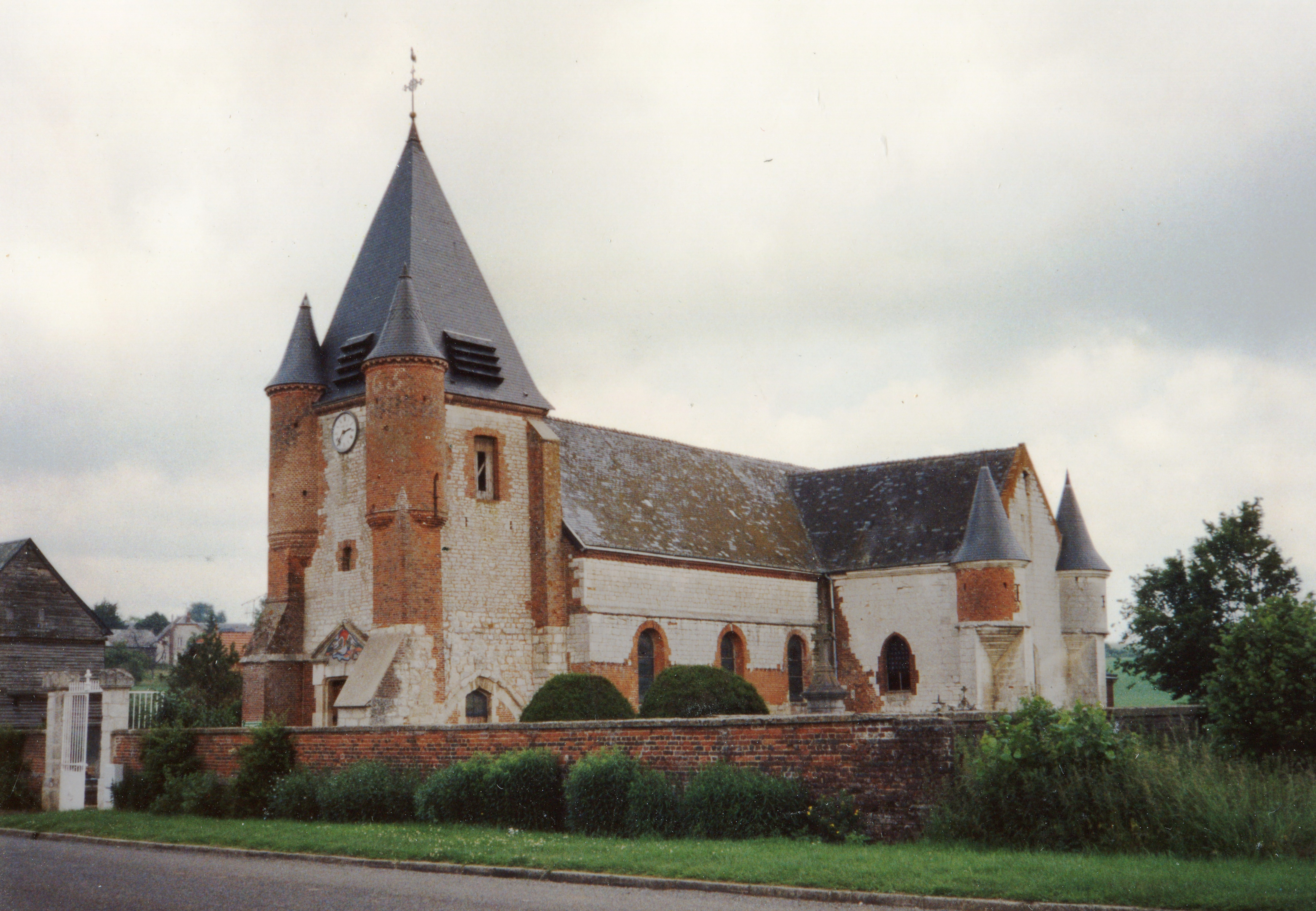 Église Saint-Nicolas de Noircourt en 1991